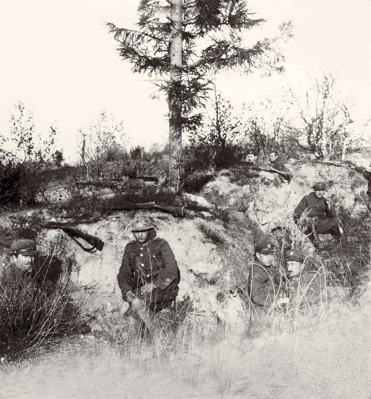 Polish infantry in a trench outside Radzymin during Polish-Soviet War of 1920. The soldier in the center wears an Adrian helmet, while the rest have maciejówka caps inherited from the Polish Legions.